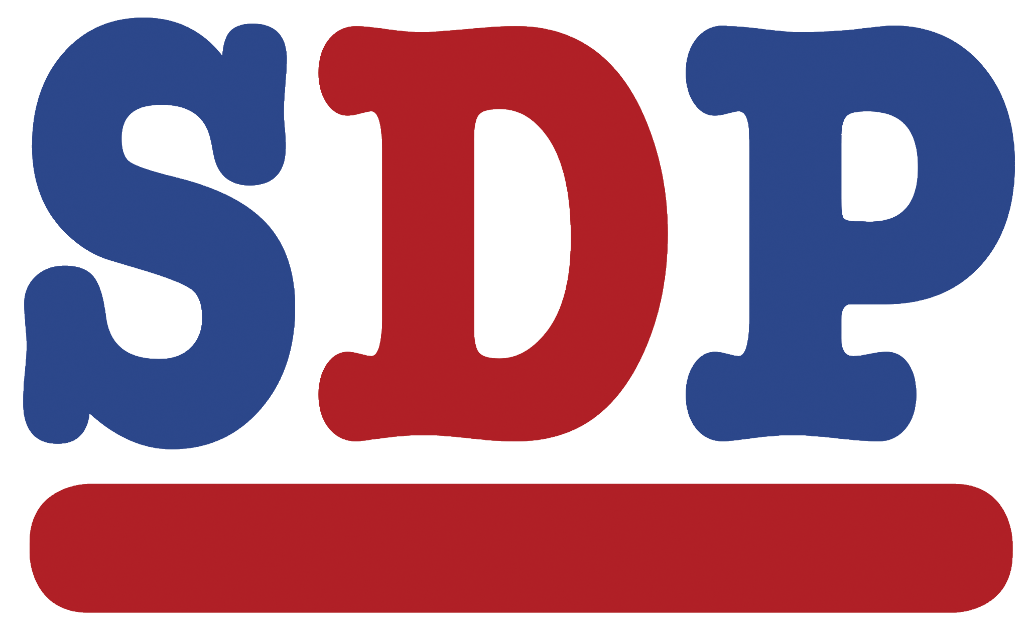 Logo of the Social Democratic Party (UK)